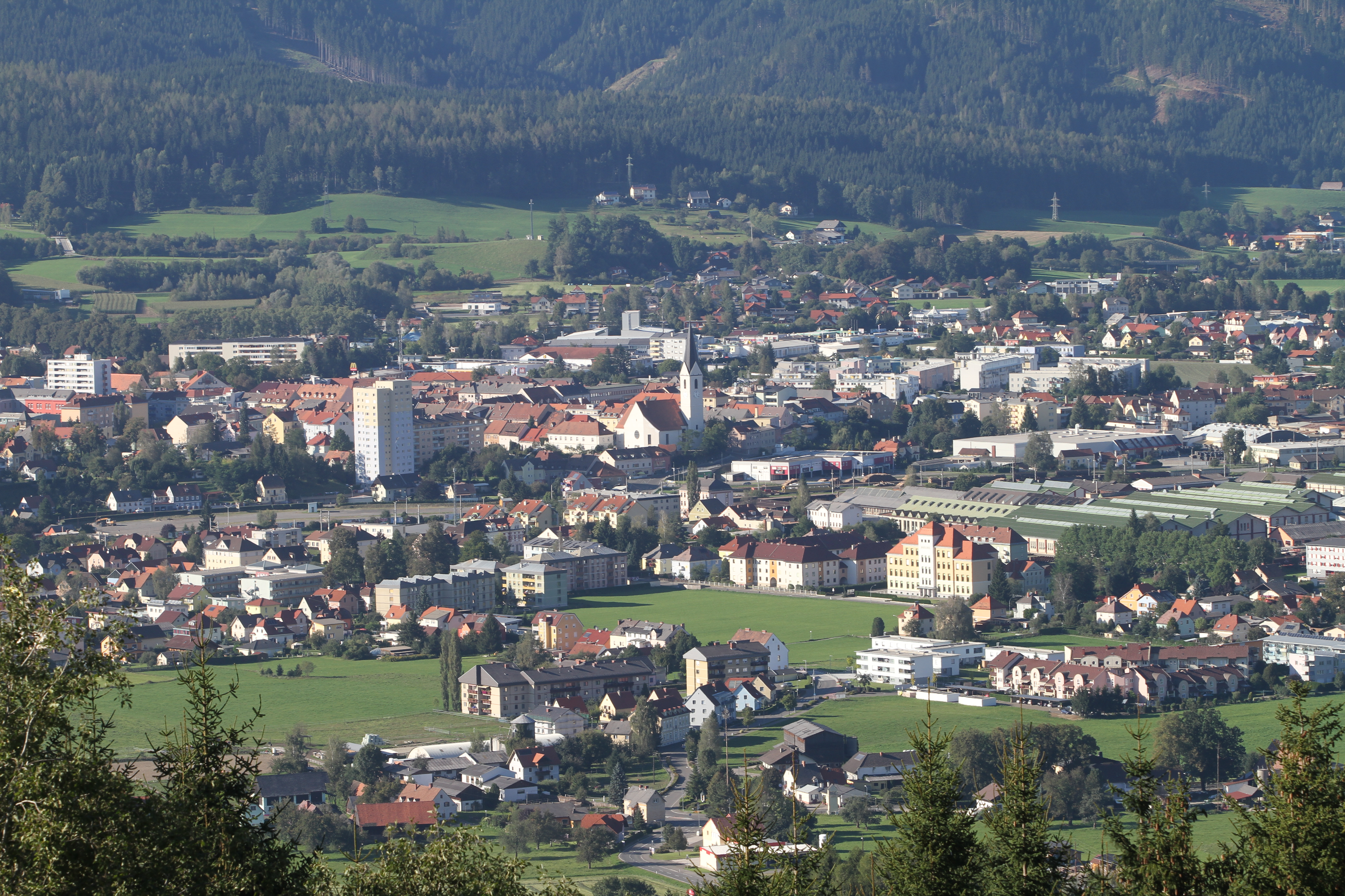 Knittelfeld